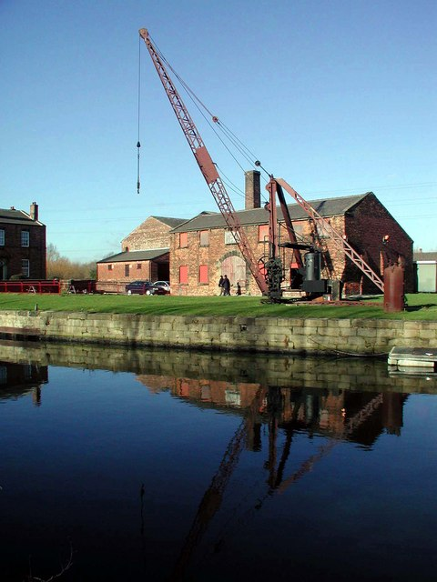 Thwaite Mills, near Leeds, West Yorkshire, England. Restored 18th century water-powered mill, previously used as fulling mill, putty grinding, etc. Now museum operated by Leeds City Council